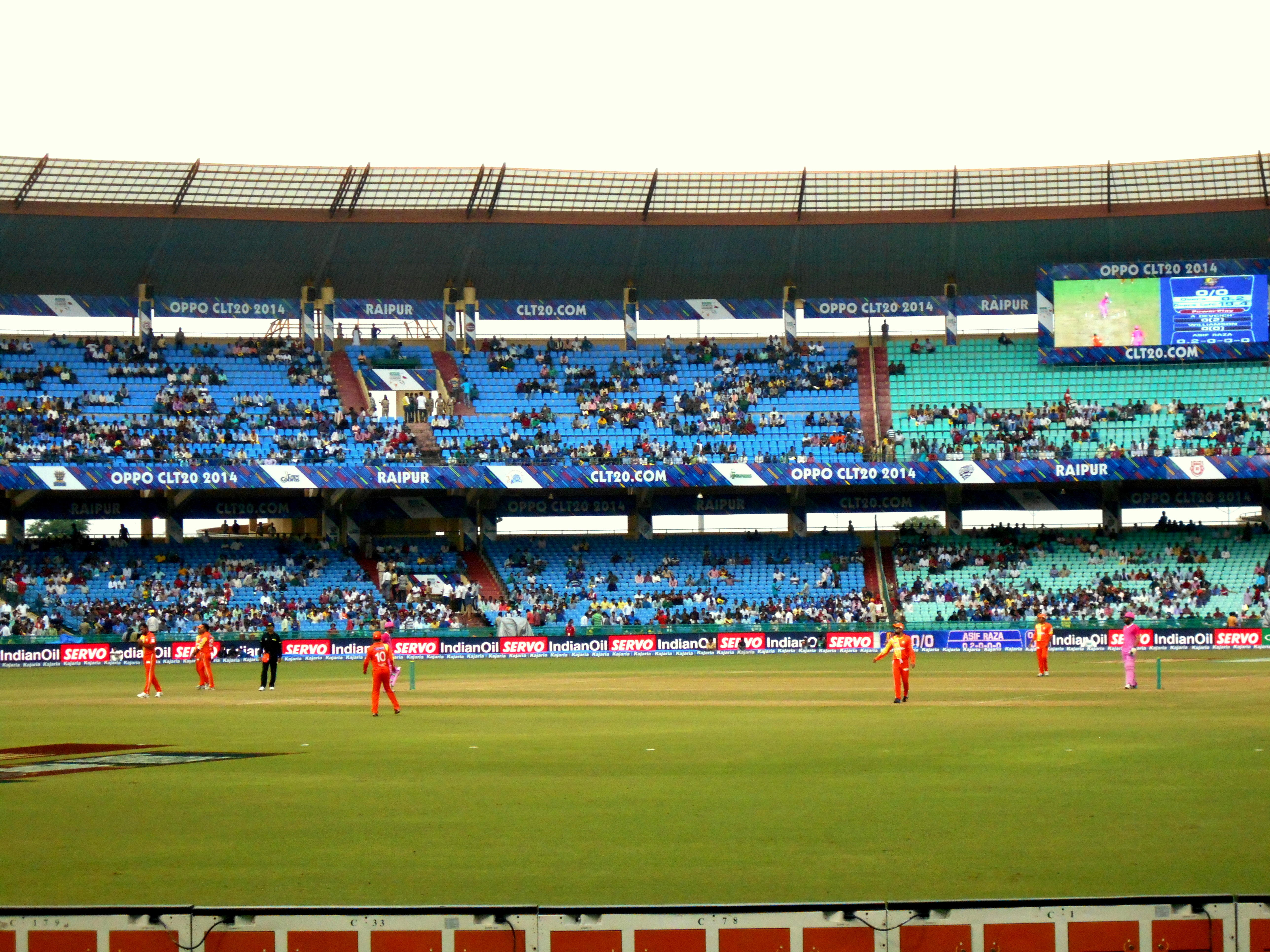 CLT20 match between Northern Knights and Lahore Lions at Shaheed Veer Narayan Singh International Cricket Stadium at Naya Raipur.